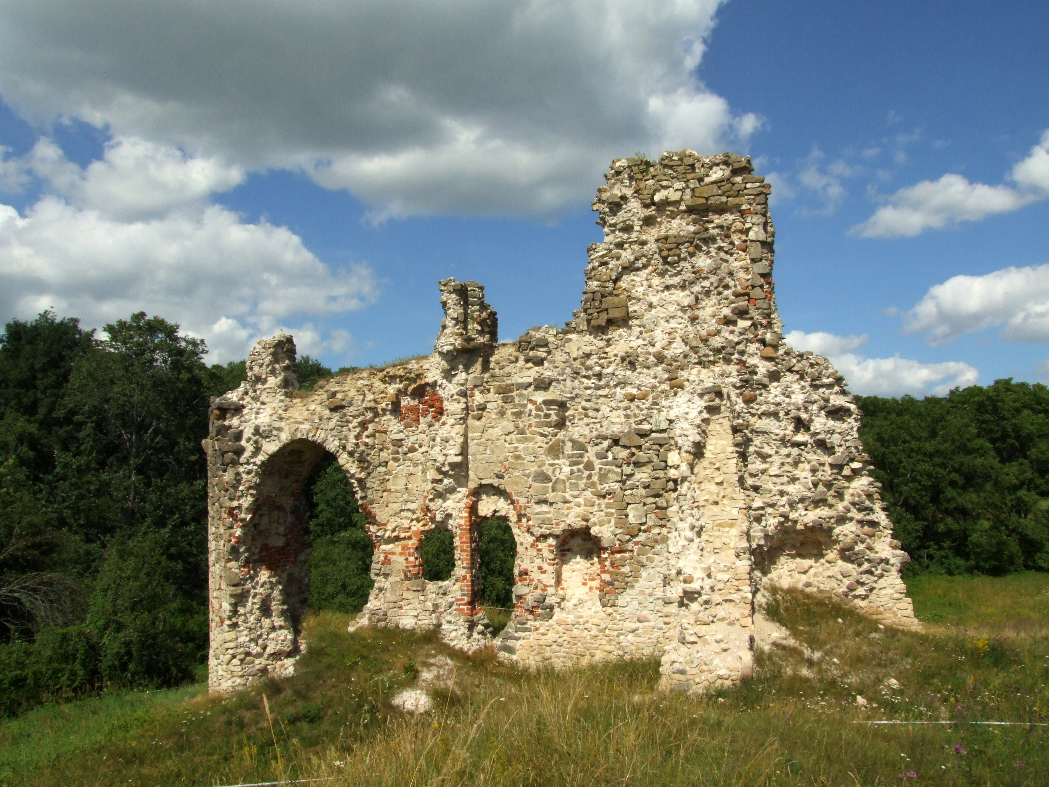 Aizkraukle Castle ruinsLatviešu: Aizkraukles pilsdrupas